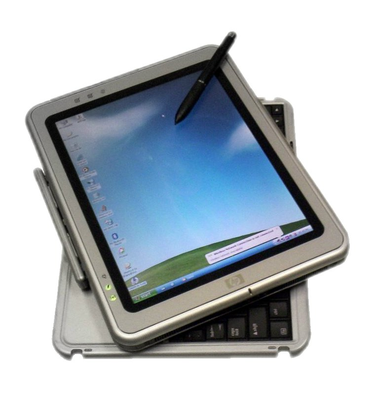 Photo of HP Tablet PC running Windows XP Tablet PC Edition. Modified with Picasa2.